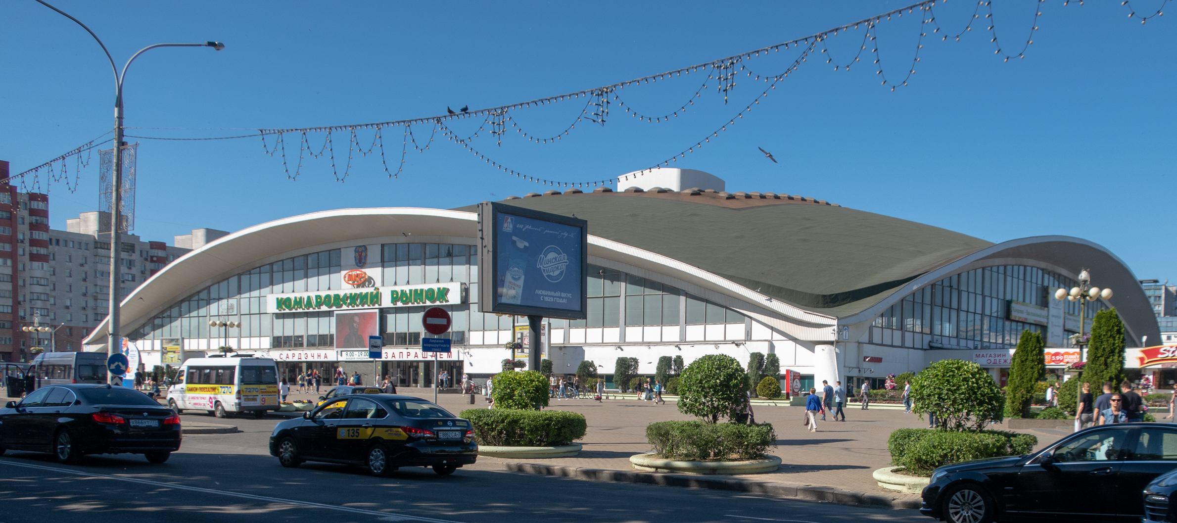 Kamaroŭski market (Minsk, Belarus)